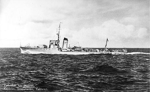 Postcard picture of the Swedish picket-boat HMS Jägaren.